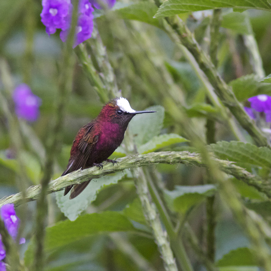 Snowcap taken at Rancho Naturalista, Costa Rica.